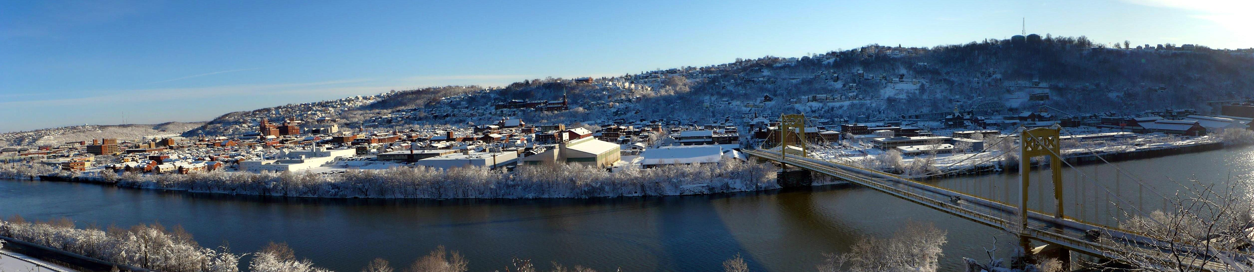 A panoramic photograph of Pittsburgh's South Side (from the Birmingham Bridge on the far left to the Tenth Street Bridge on the right). Taken from Bluff Street on the campus of Duquesne University Panorama stitched with autostitch